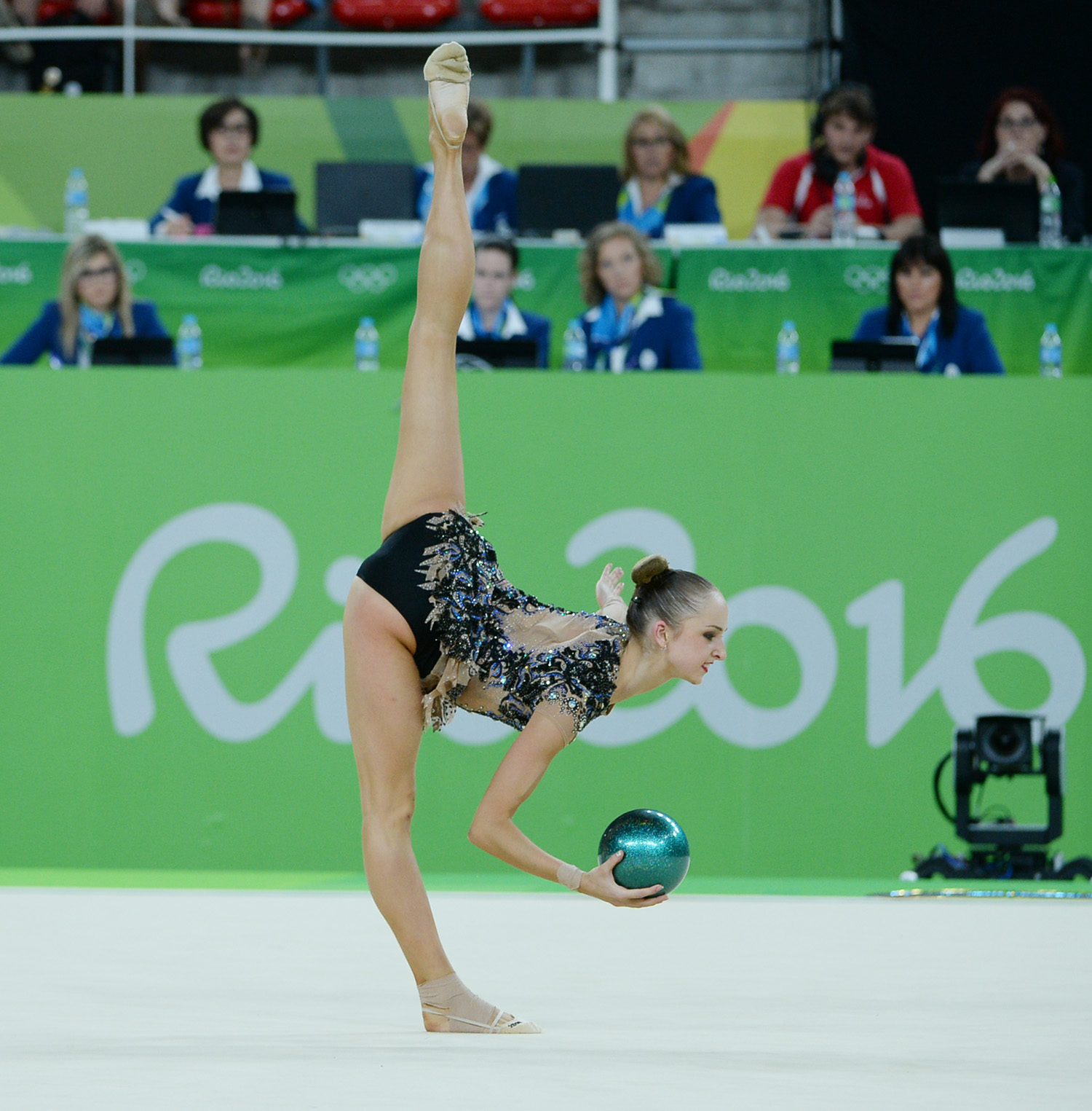 Rhythmic gymnastics at the 2016 Summer Olympics, Marina Durunda